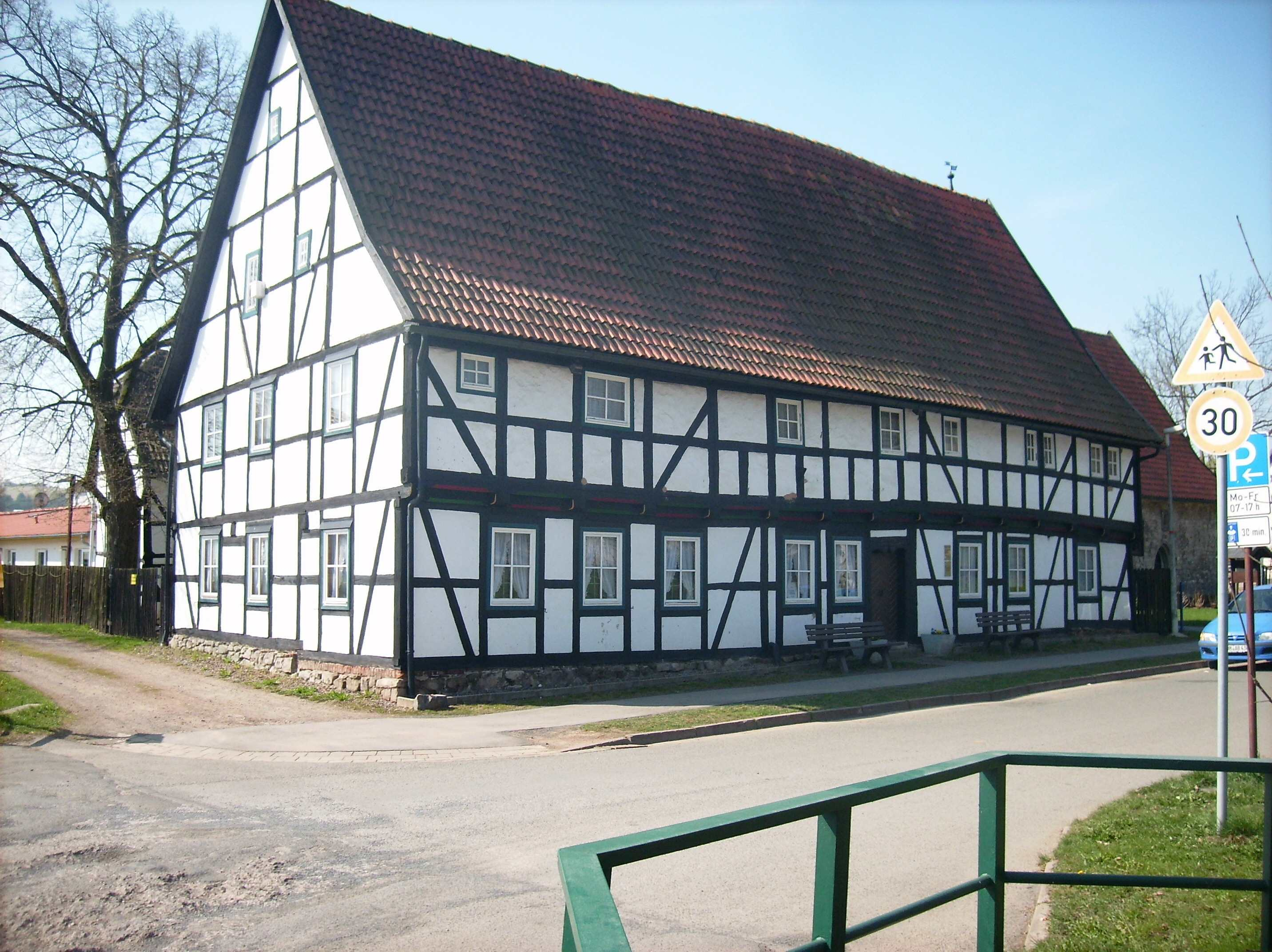 Lower house of the ancient hospital in Ellrich (Nordhausen district, Thuringia), nowadays Museum of local history